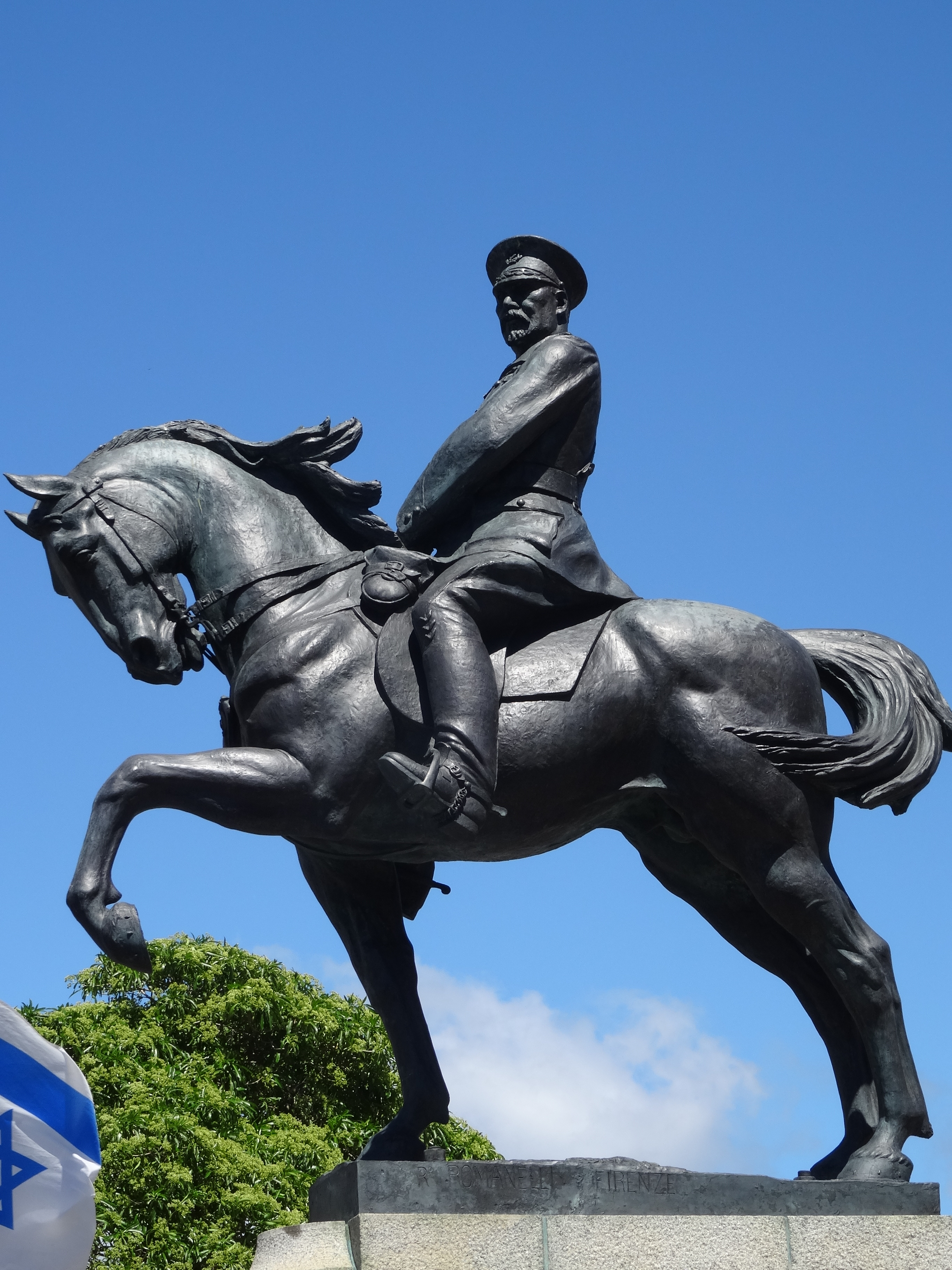 General Louis Botha Statue, Cape Town.